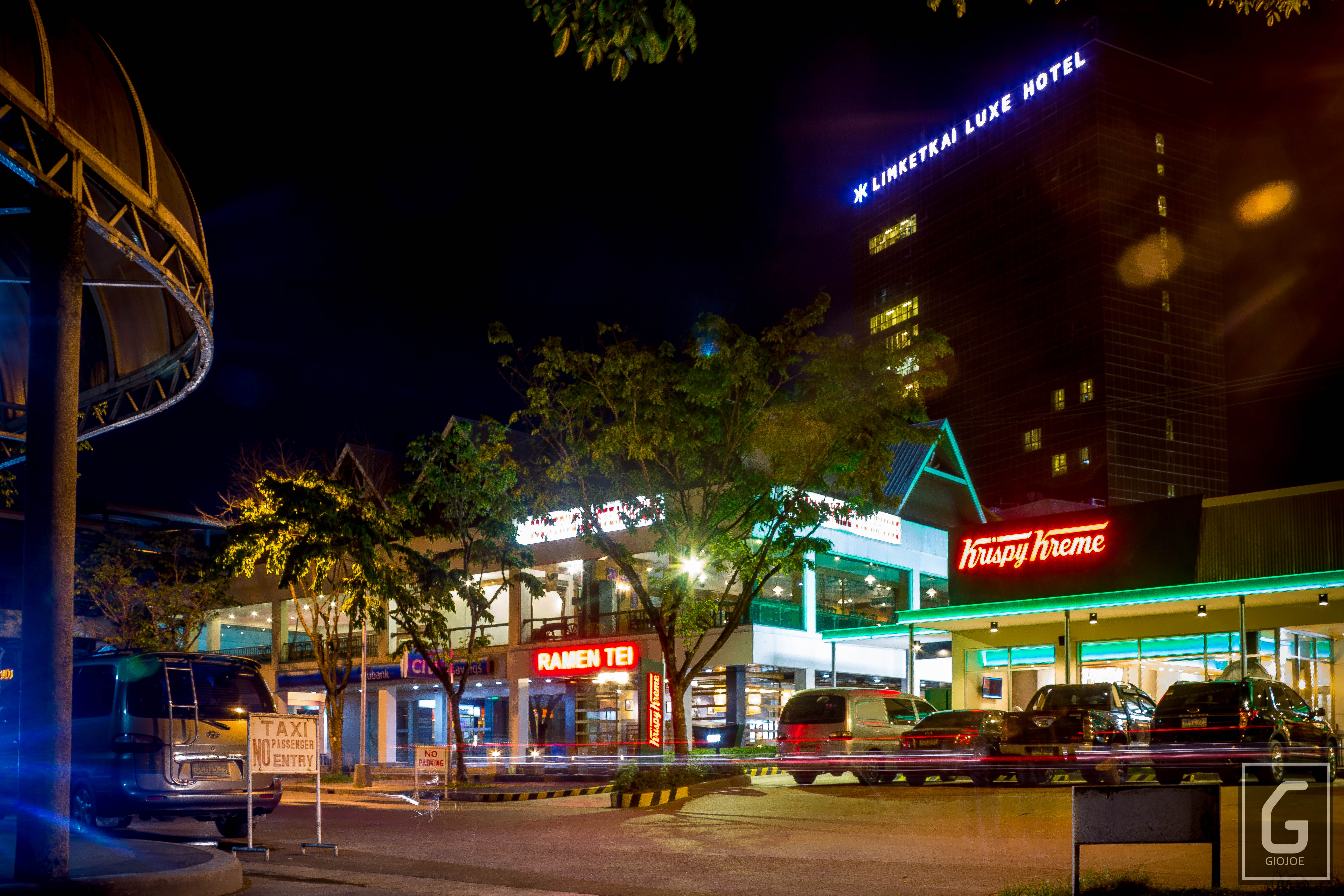 A portion of Limketkai Center